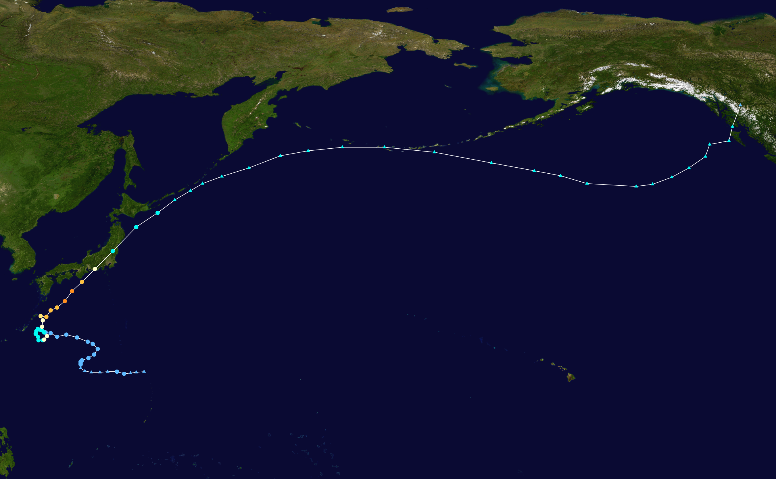 Track map of Typhoon Roke of the 2011 Pacific typhoon season. The points show the location of the storm at 6-hour intervals. The colour represents the storm's maximum sustained wind speeds as classified in the Saffir–Simpson scale (see below), and the shape of the data points represent the nature of the storm, according to the legend below. Saffir–Simpson scale Tropical depression≤38 mph≤62 km/h Category 3111–129 mph178–208 km/h Tropical storm39–73 mph63–118 km/h Category 4130–156 mph209–251 km/h Category 174–95 mph119–153 km/h Category 5≥157 mph≥252 km/h Category 296–110 mph154–177 km/h Unknown Storm type Tropical cyclone Subtropical cyclone Extratropical cyclone / Remnant low / Tropical disturbance / Monsoon depression